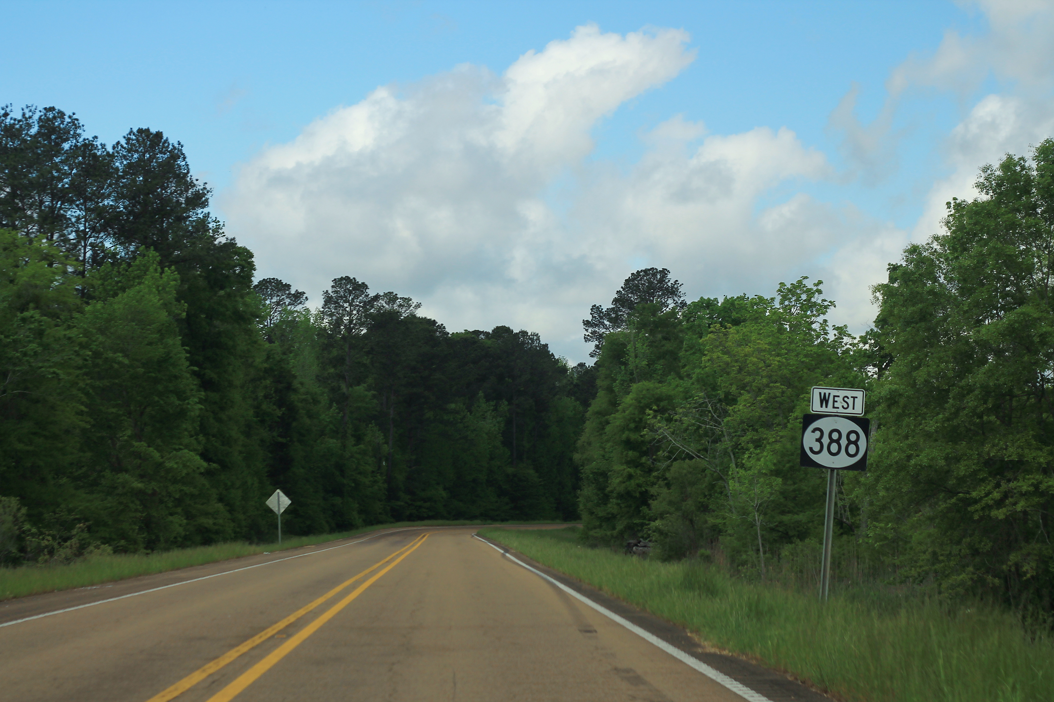 A sign for Mississippi Highway 388 in Noxubee County, near the Alabama-Mississippi state line.